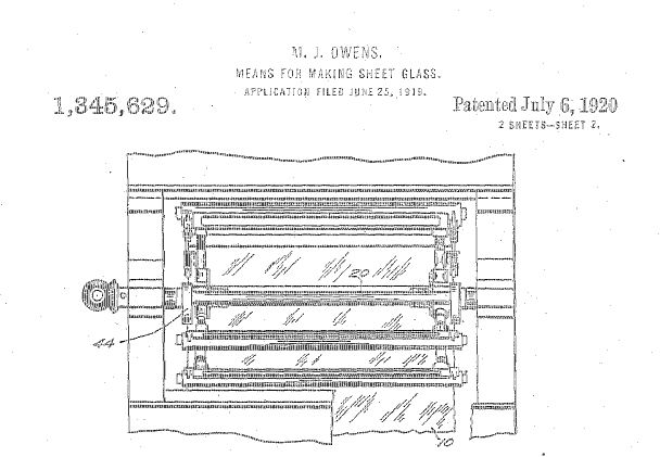 Drawing from Michael Owens patent number 1,345,629, granted in 1920.